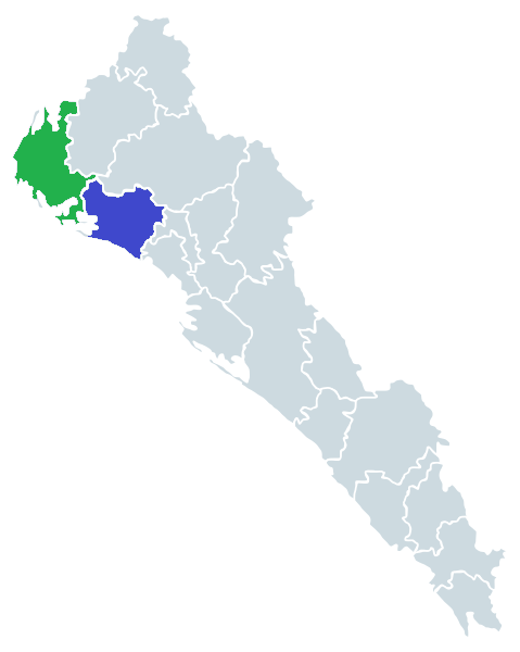 Los Mochis-Guasave Metropolitan Area Ahome Municipality Guasave Municipality